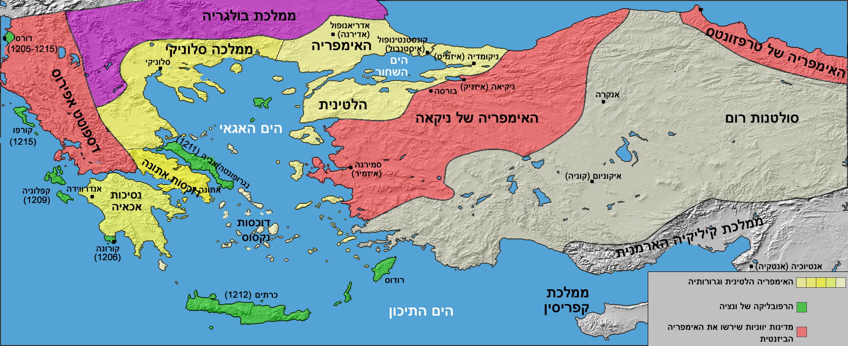 The borders of the Latin Empire and Byzantine Empire after the 4th crusade (1204) up to the Treaty of Nymphaeum in 1214. Borders are approximate.